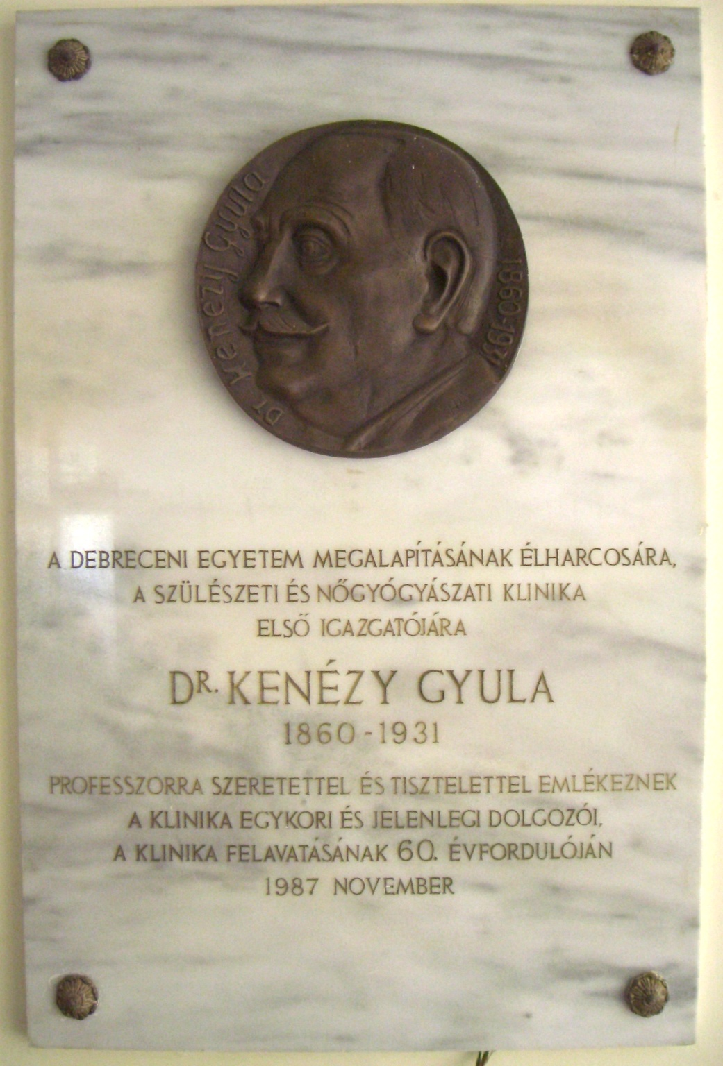 Memorial plaque at the Medical University DEOEC in Debrecen to commemorate Dr. med.Prof. Gyula Kenézy (1860 – 1931), doctor, obstetrician, founder of the first maternity clinic at the university Debrecen.